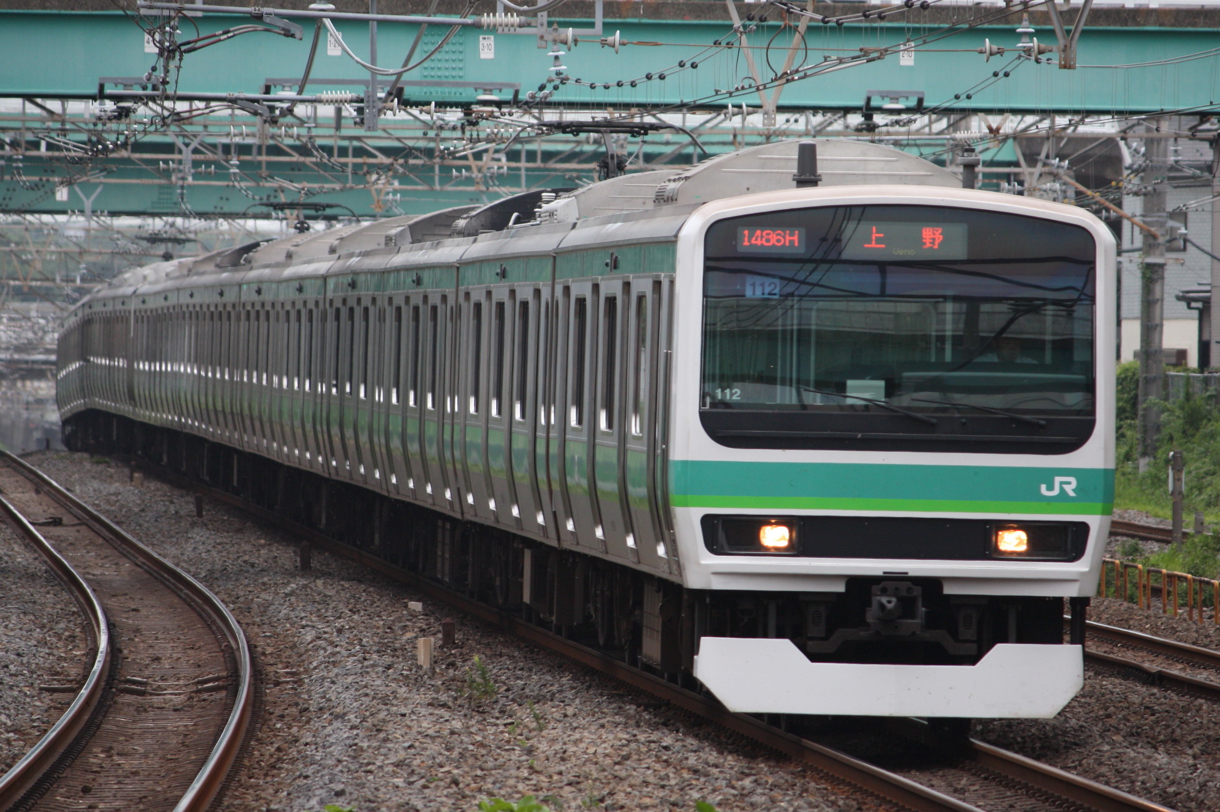 JR East E231-0, serving Joban Line Raid Service (Taken at Kashiwa Station)